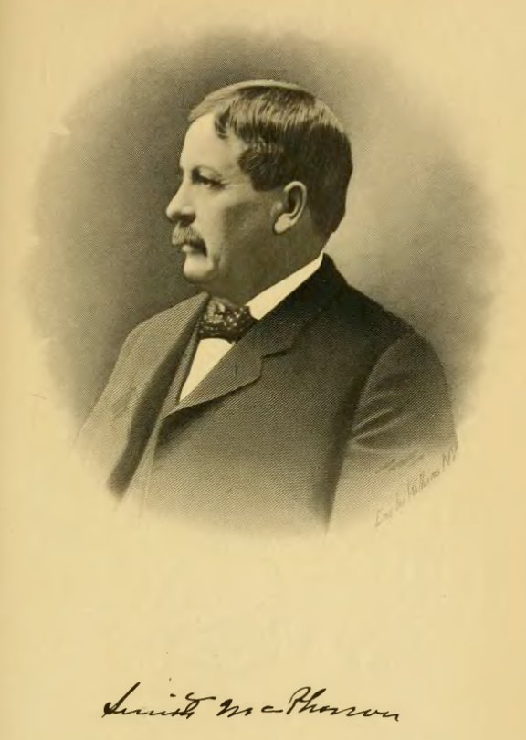 Portrait in History of Iowa From the Earliest Times to the Beginning of the Twentieth Century